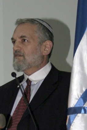 Israeli MP Binyamin Elon delivering a speech at the Knesset annual Science Day.